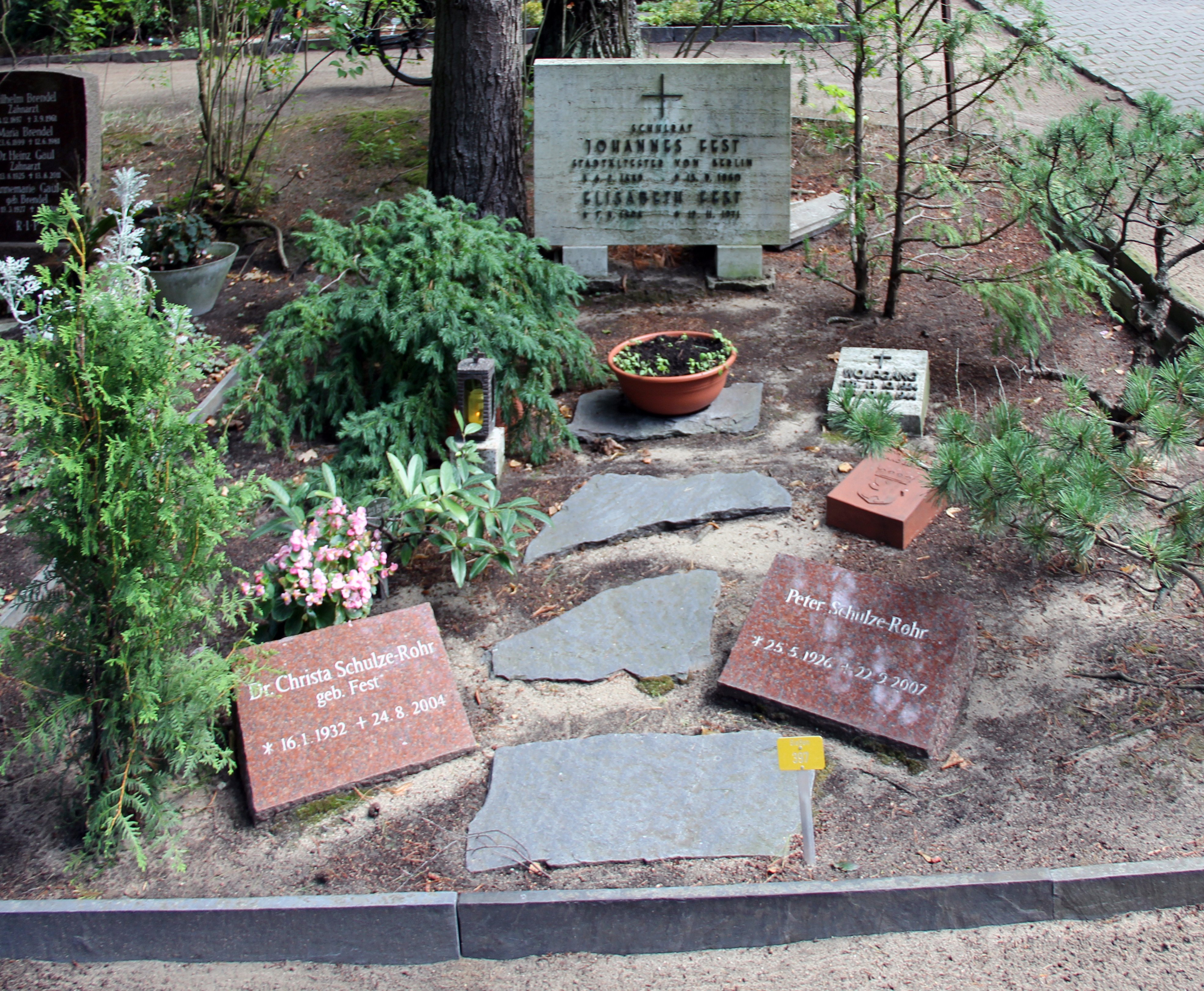 Grave of honor, Johannes Fest, Röblingstraße 91, Berlin-Tempelhof, Germany